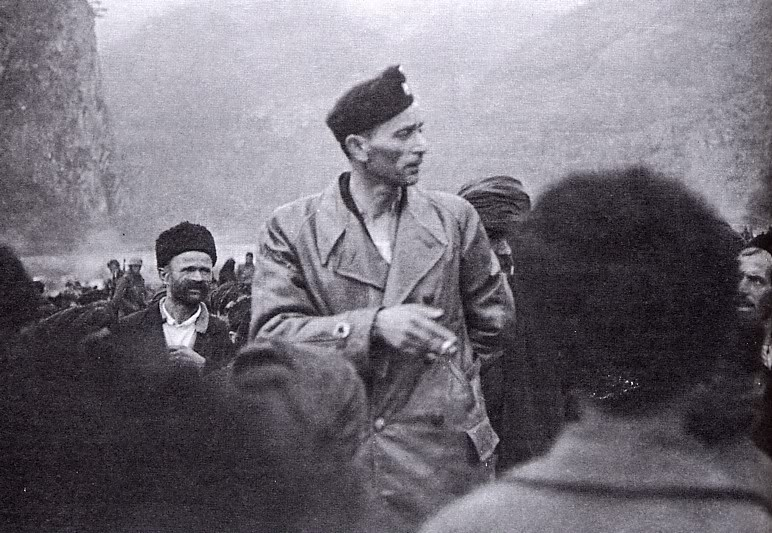 Lieutenant Colonel Jure Francetić gives a speach to the Serbian refugees near the Drina river during Operation Trio.